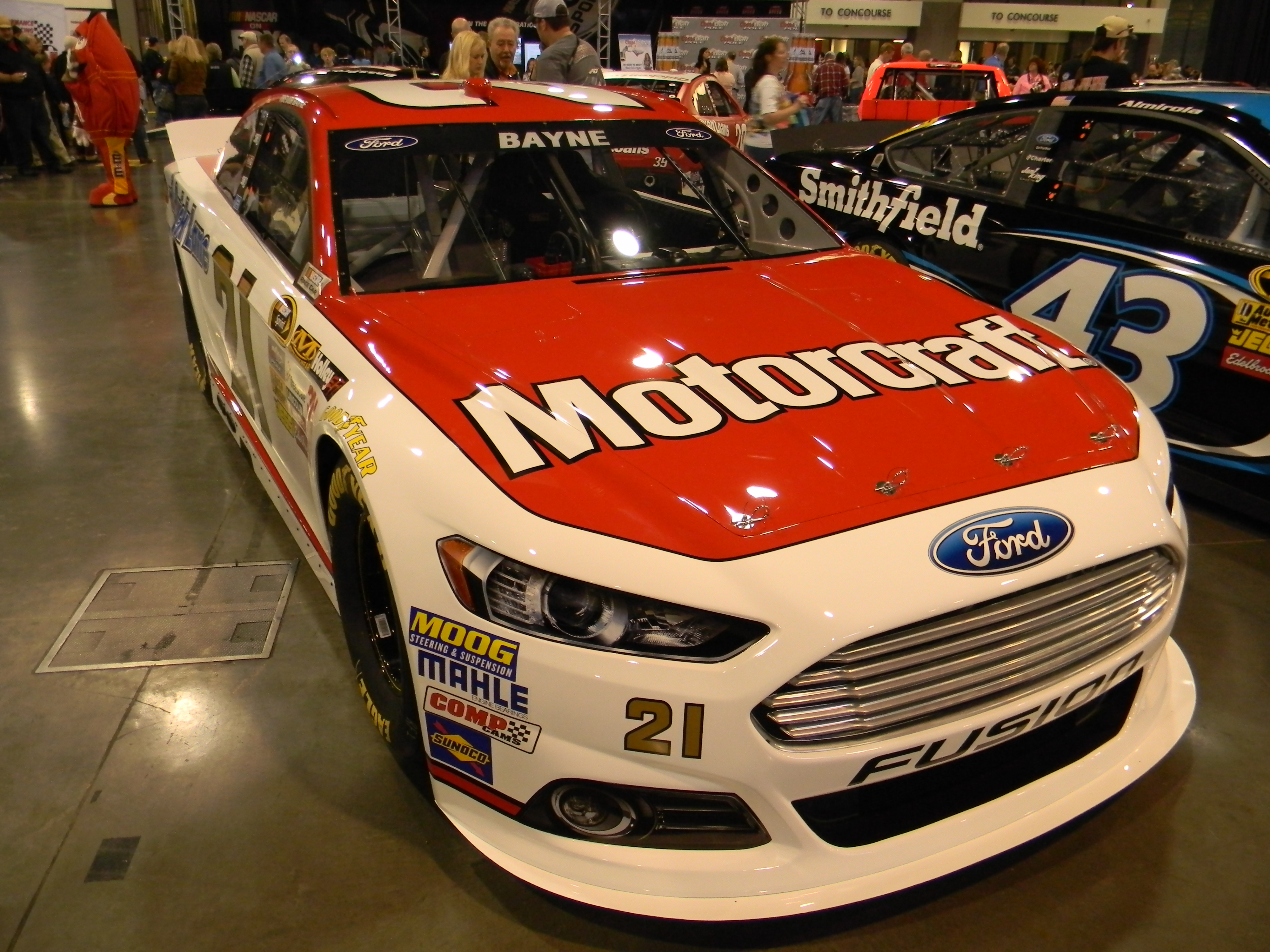 Trevor Bayne's 2013 Ford Fusion on display at the Charlotte Convention Center during NASCAR Preview 2013.